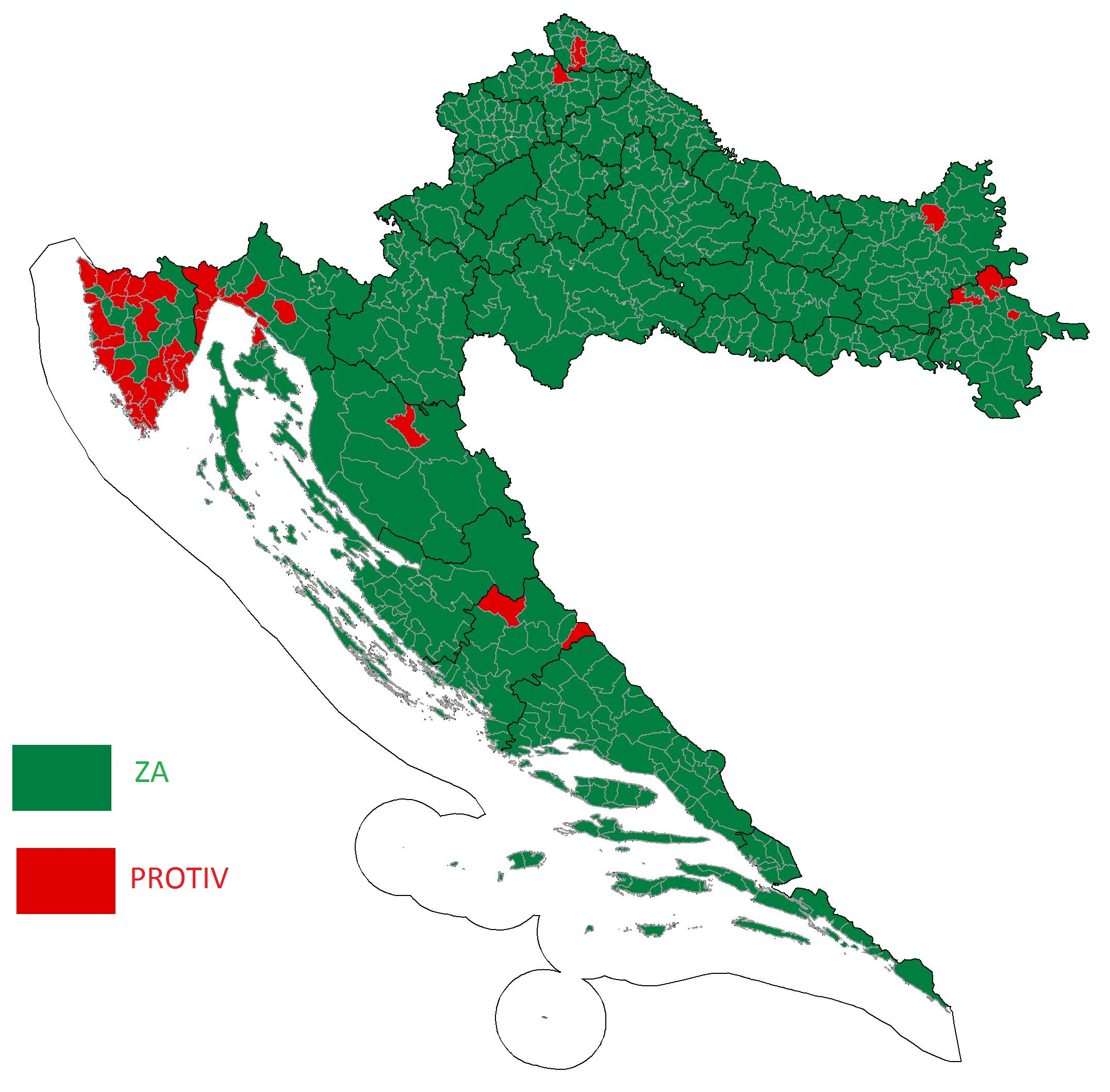 Croatian constitutional referendum, 2013. Results per municipalities per